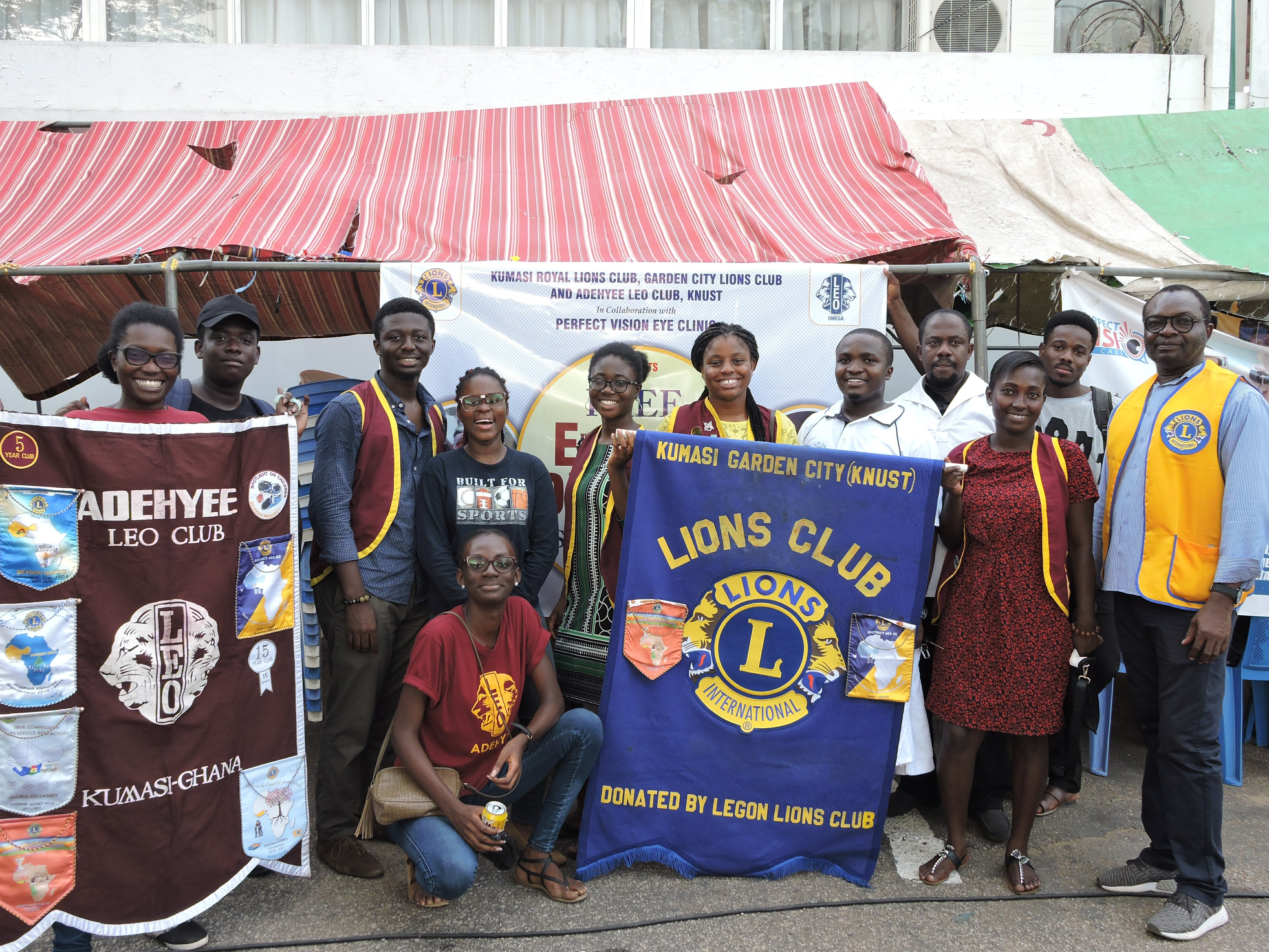 Adehyee Leo Club in Kumasi,Ghana with their sponsoring Lions club members after an eye screening and diabetes check up activity in Kwame Nkrumah University Campus